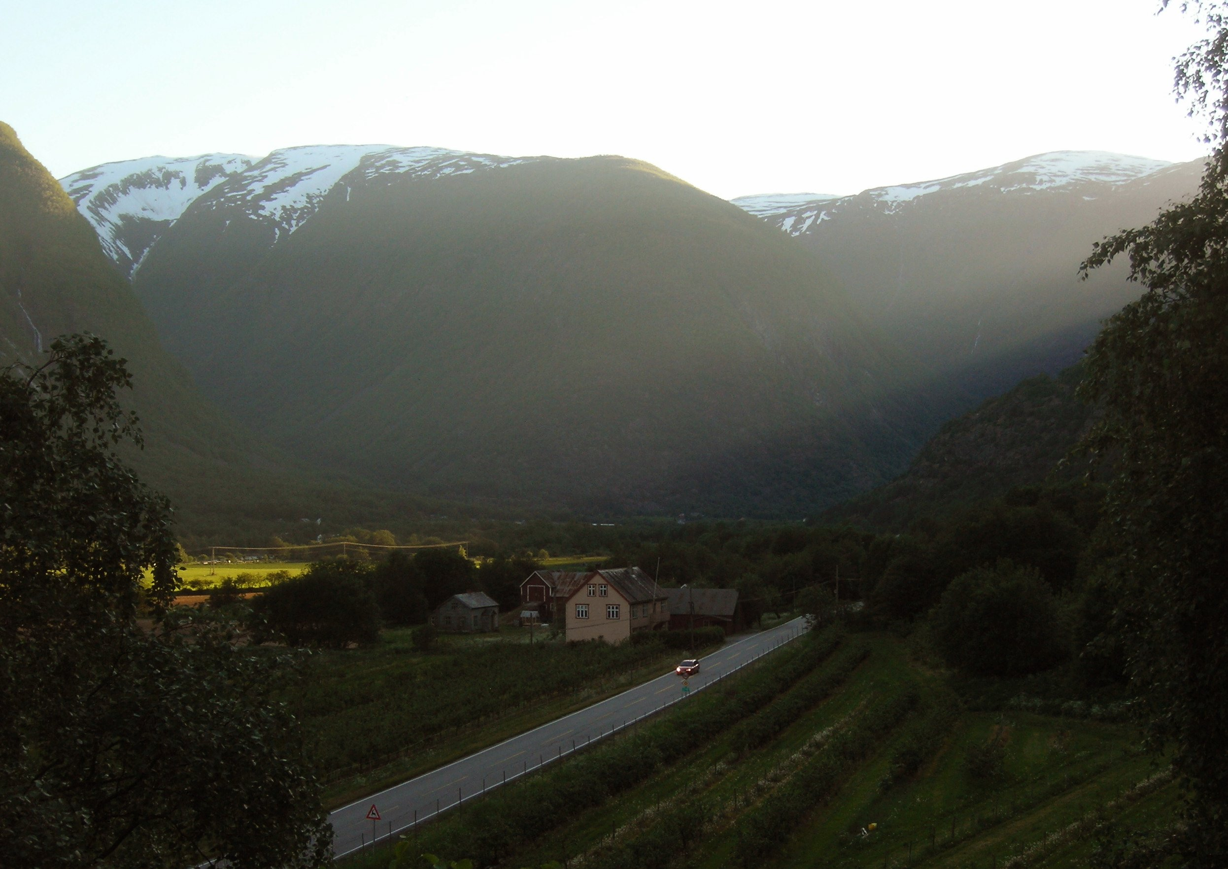 Lærdal viewed from Ljøsne